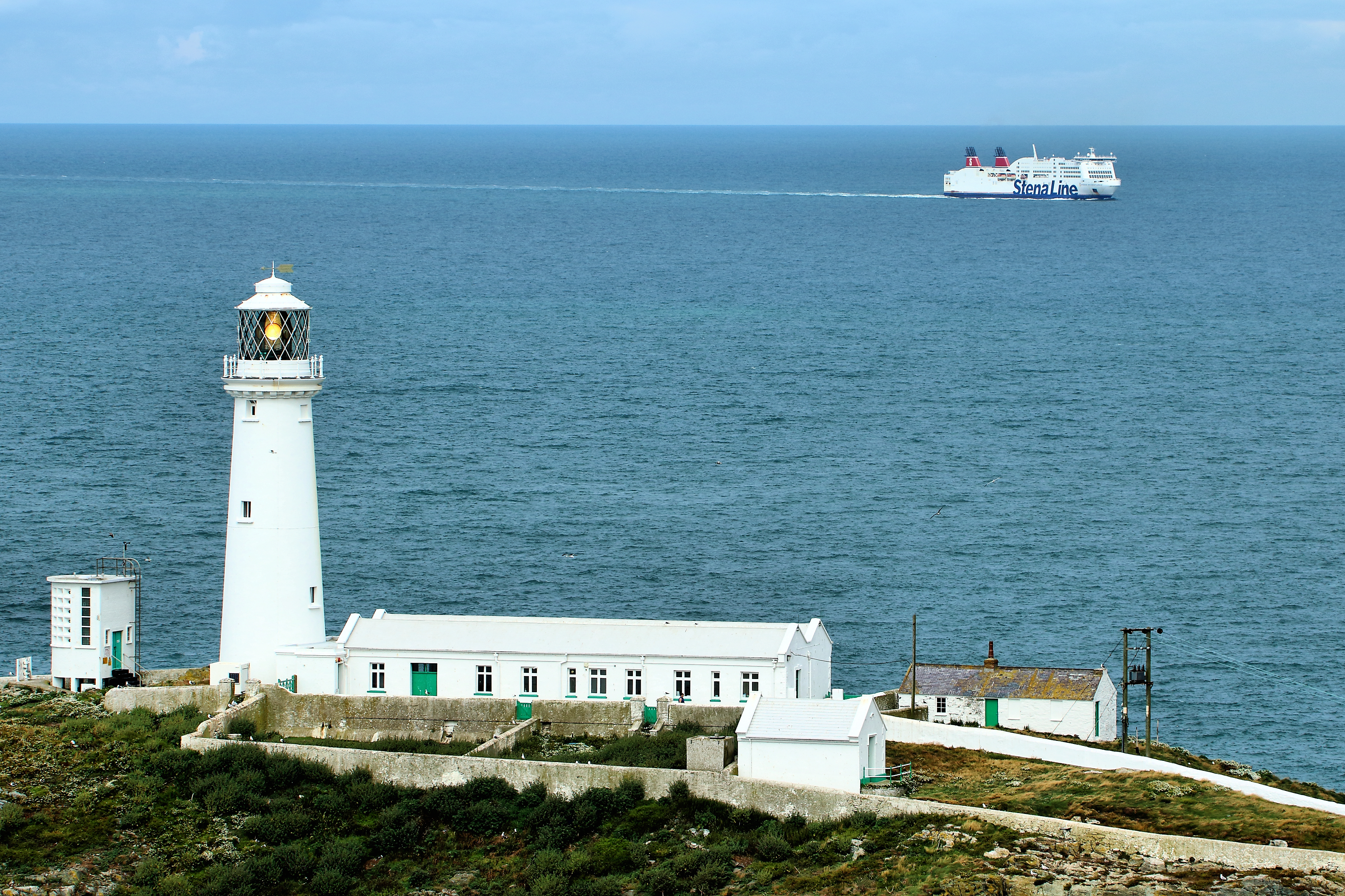 Anglesey 2015 - Holiday